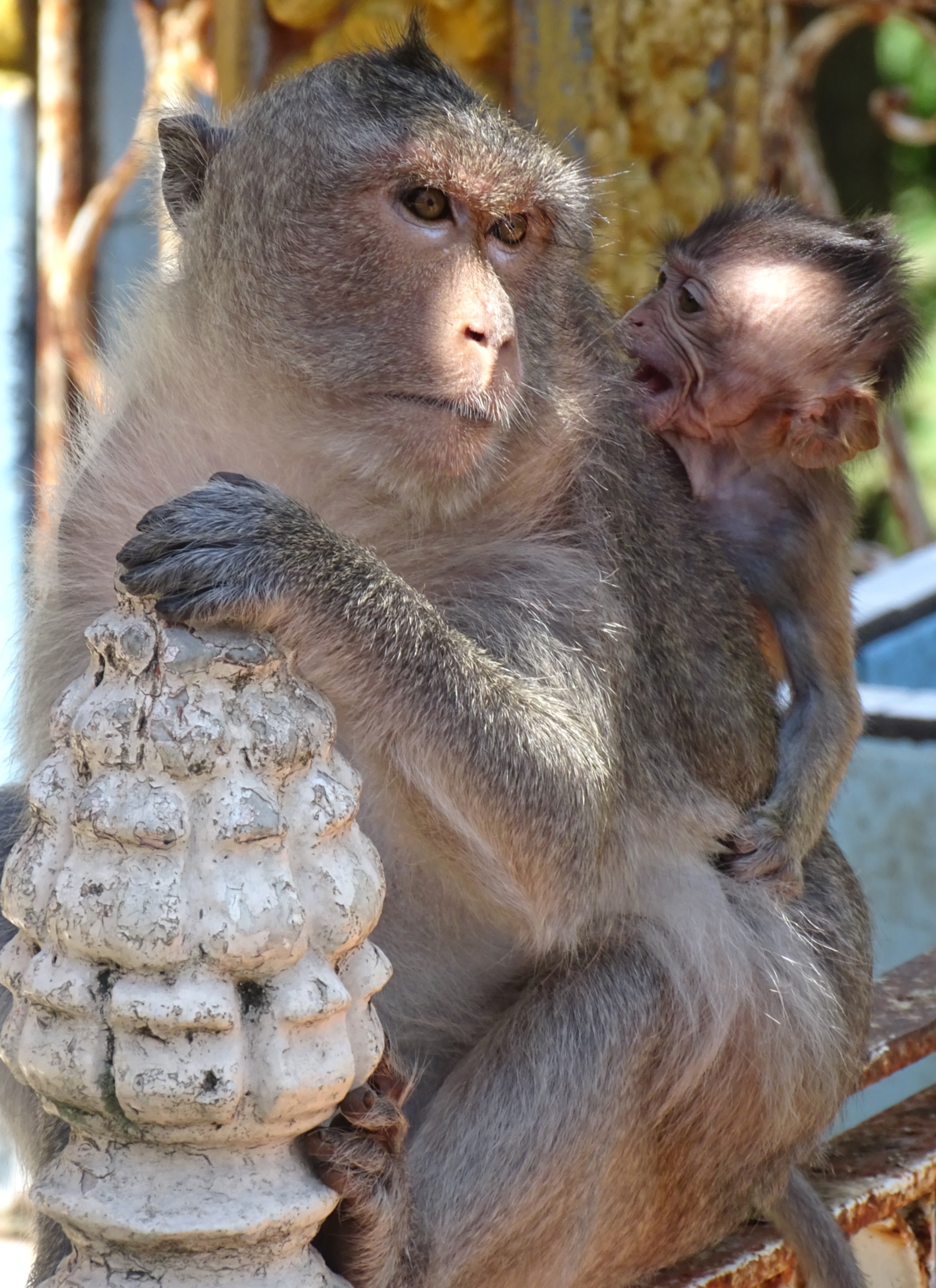 Monkey Mother and Child - Phnom Pros (Man Hill) - Outside Kampong Cham - Cambodia